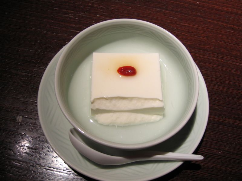 rich and tasty